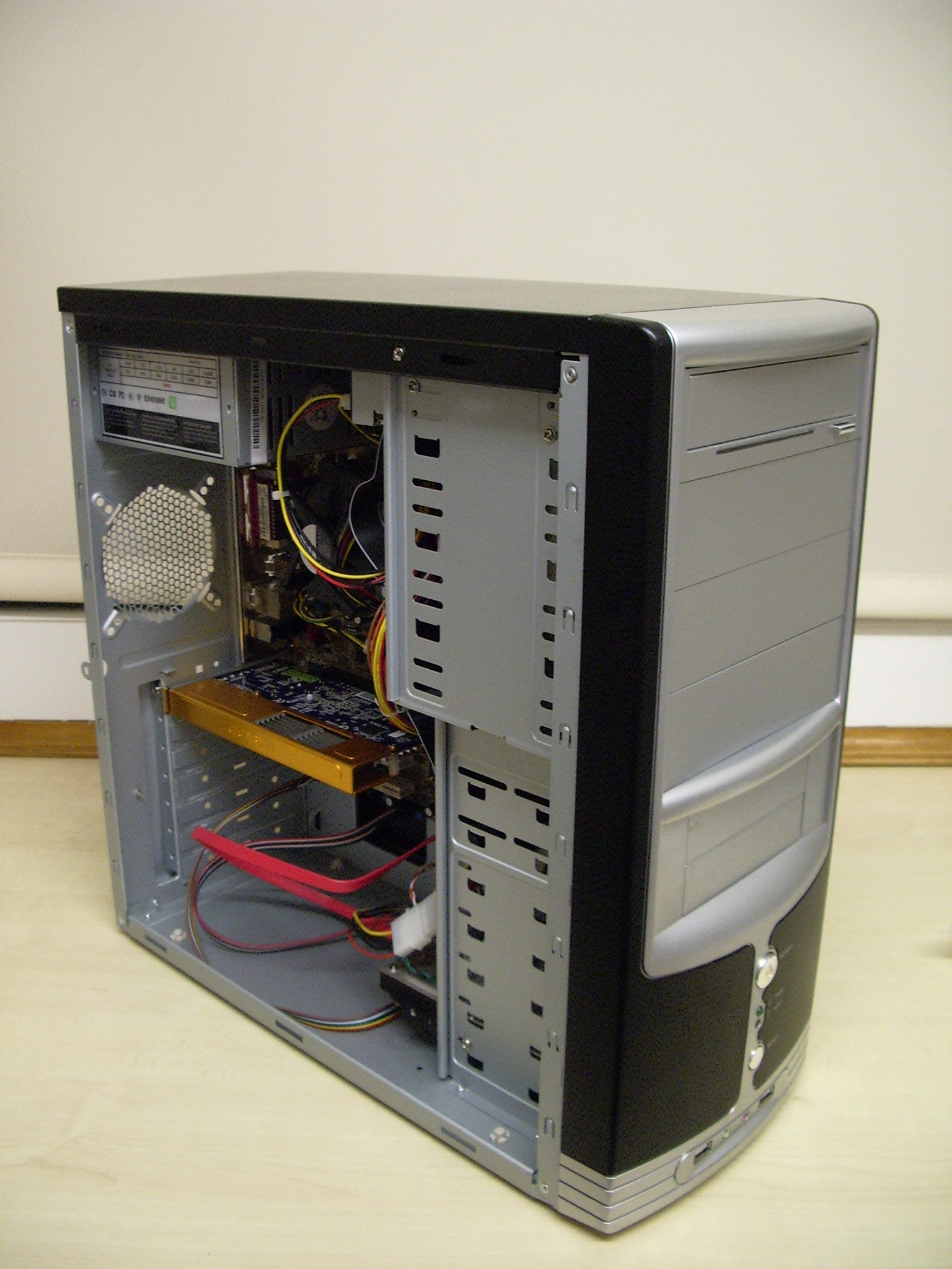 a computer in a new case (2008)